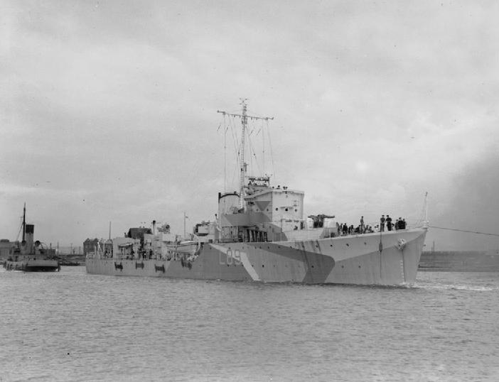 British destroyer HMS PENYLAN under tow.